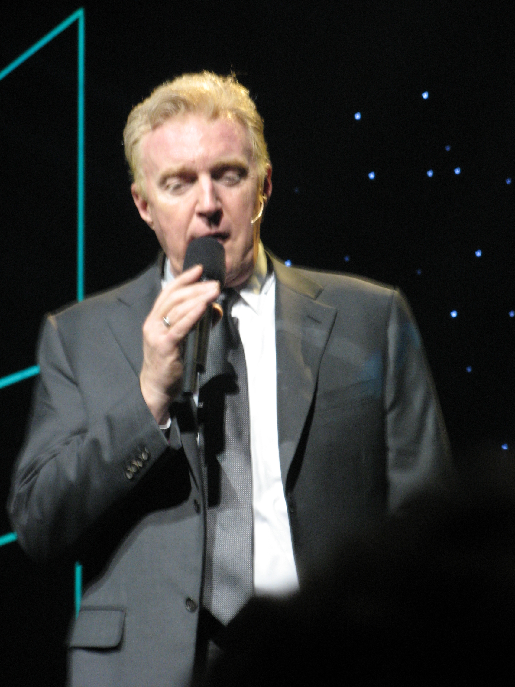 Dutch comedian André van Duin